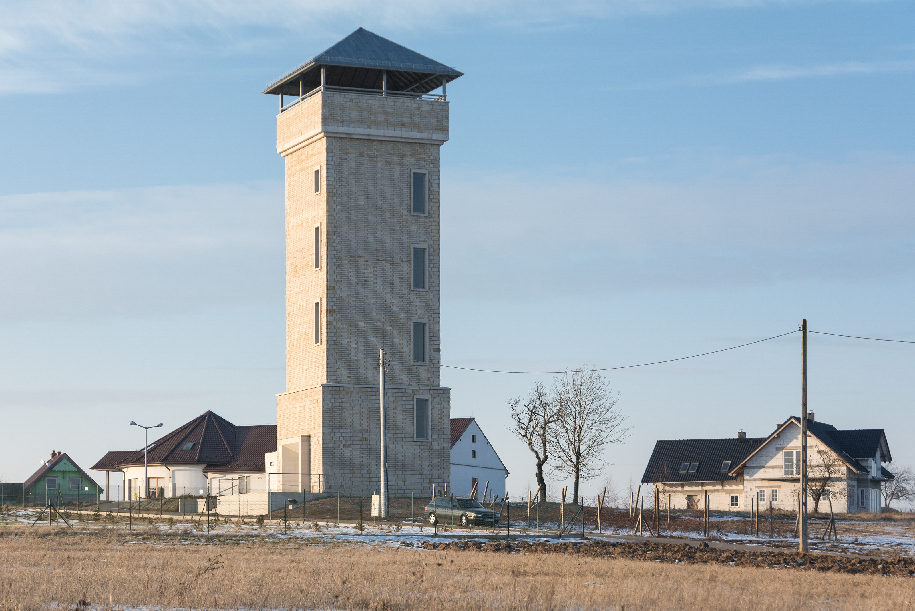 Lookout tower in Suszyna